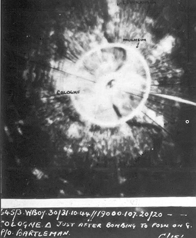 A photograph of an H2S radar display taken during an attack on Cologne from an aircraft flying at 19,000 ft on the night of the 30/31 October 1944 and annotated for post-attack analysis. The aircraft was flying from RAF Warboys and the pilot was a Pilot Officer Bartleman.